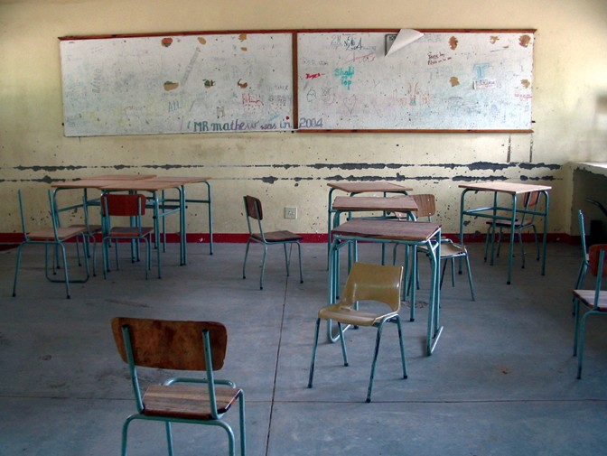 Classroom in Namibia.